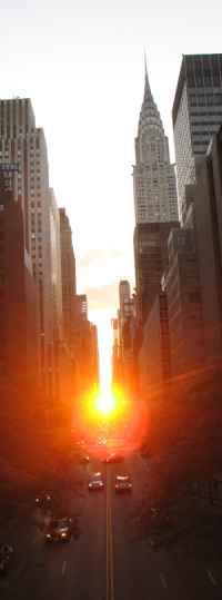 Manhattanhenge from en:42nd Street (Manhattan) shot at 8:23 p.m. on July 13, 2006 (the exif shows 7:23 since my camera did not change with Daylight Savings Time. The building on the right is the Chrysler Building. I am uploading a low resolution photo. Photo by Roger Rowlett